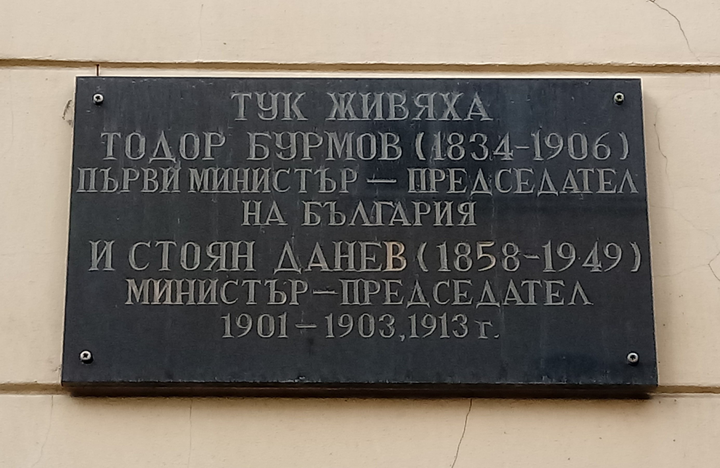 Todor Burmov and Stoyan Danev memorial plaque, 7 "Vrabcha" Str., Sofia